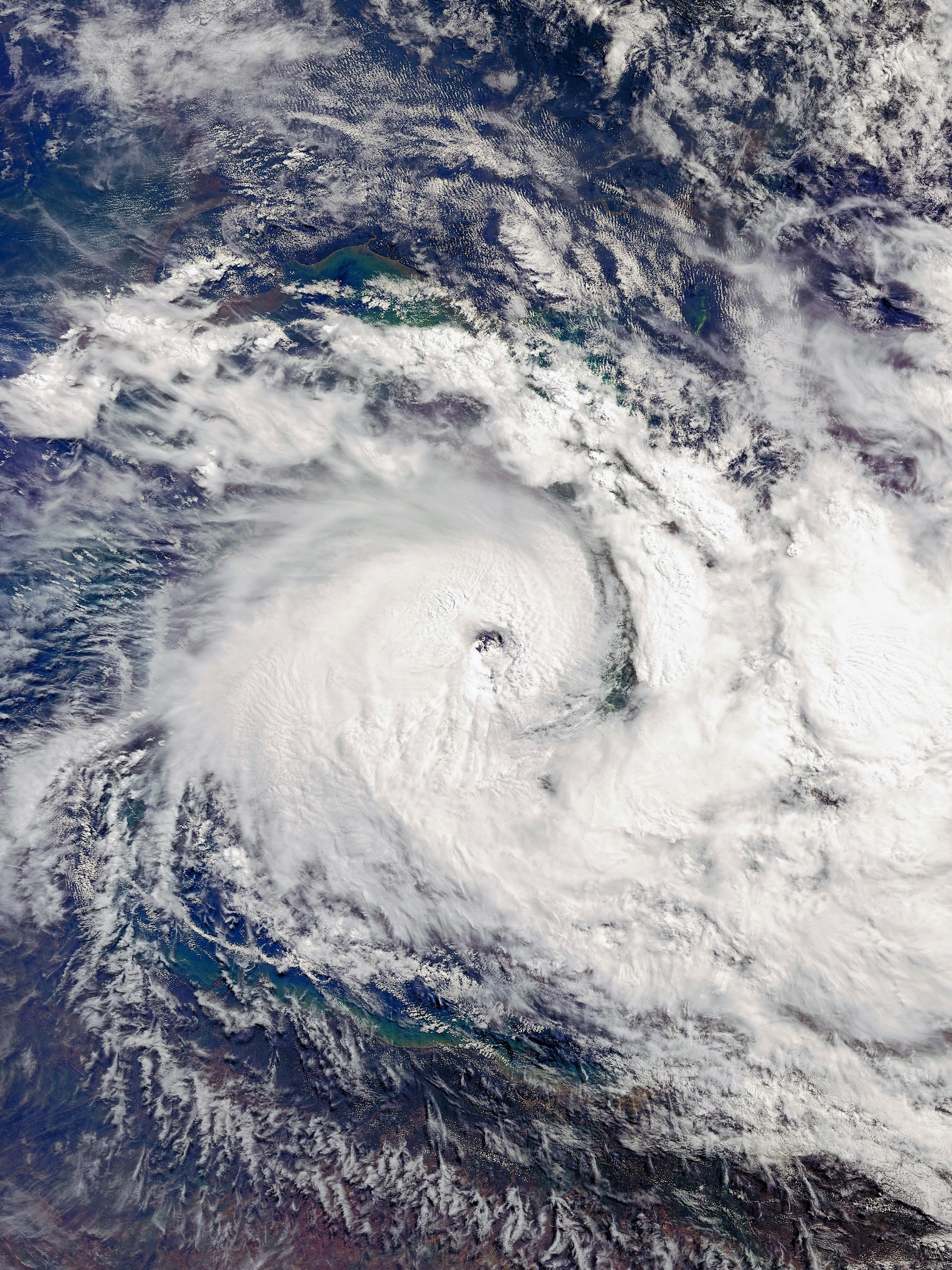 Severe Tropical Cyclone Nora at peak intensity over the Gulf of Carpentaria on 24 March 2018. This picture contains modified imagery from the Copernicus Sentinel-3 satelite.